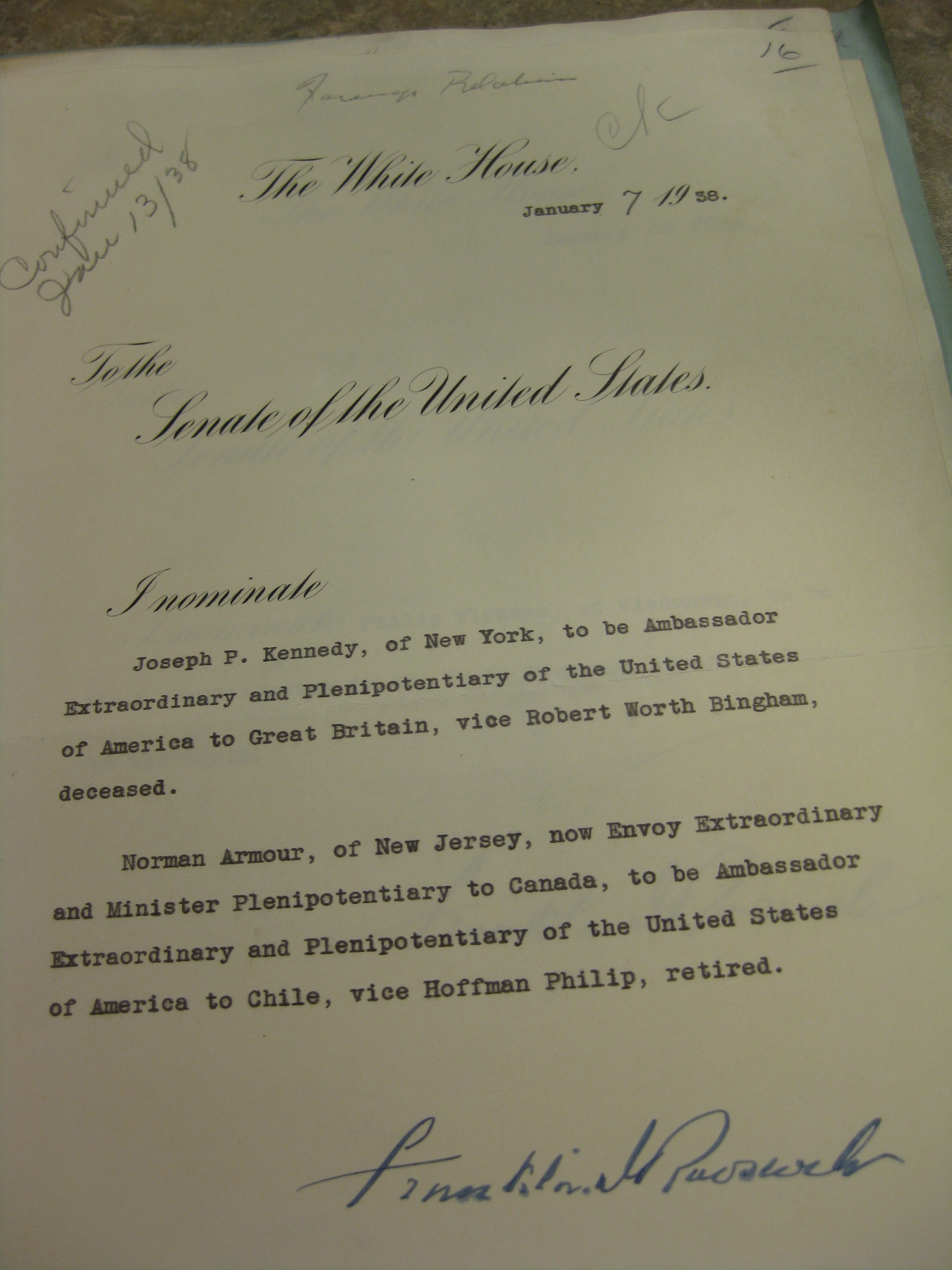 Franklin Roosevelt's nomination of Joseph Kennedy to serve as Ambassador to the United Kingdom. Courtesy of the National Archives and Records Administration.